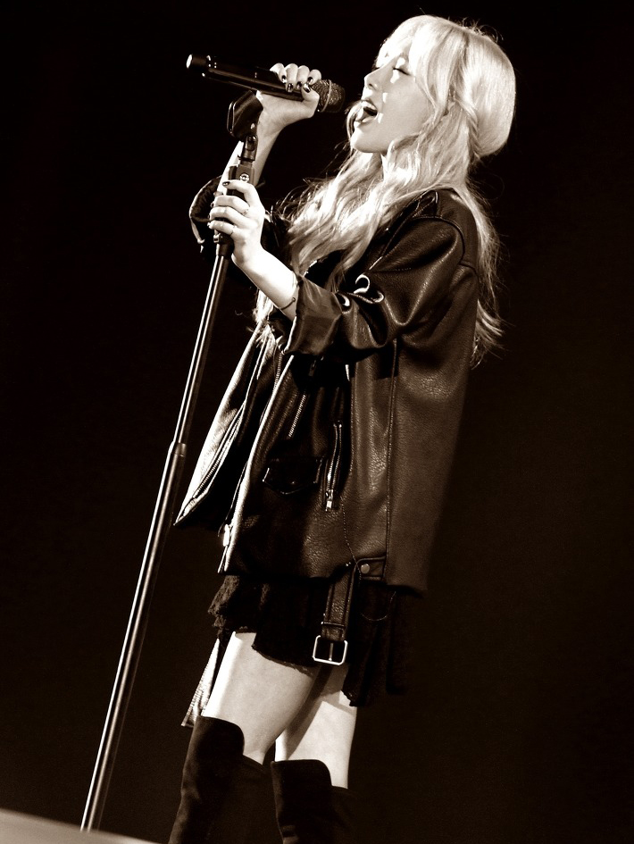 Kim Tae-yeon performing at the KBS Music Festival on December 30, 2015